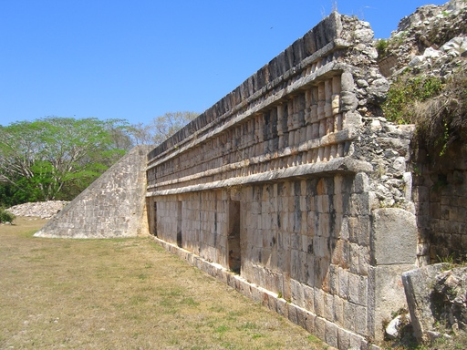 False Columns on the front side of North Palace at Sayil, Yucatán